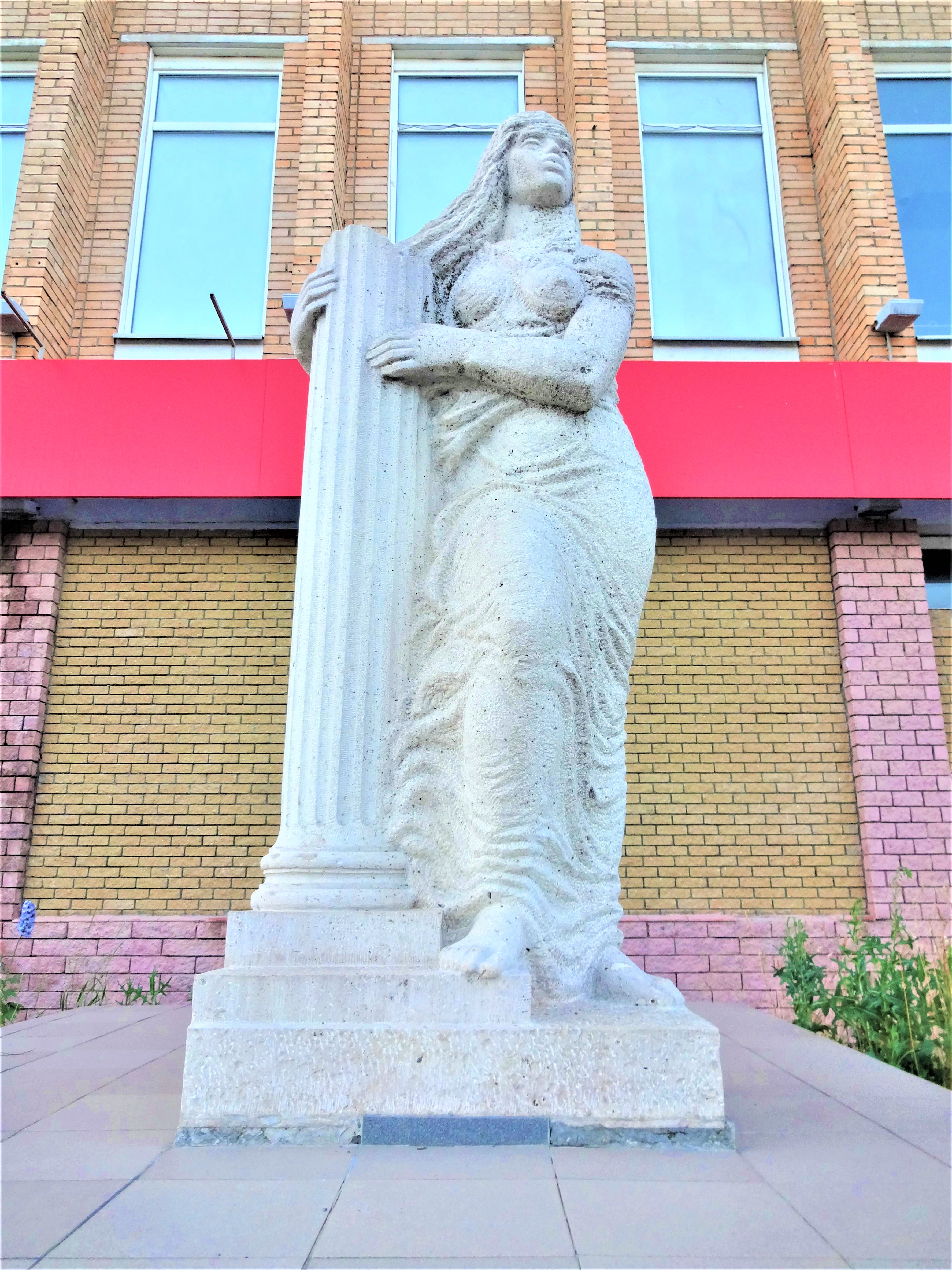 Monument to Savaria in Yoshkar-Ola (Russia, Mari El republic)